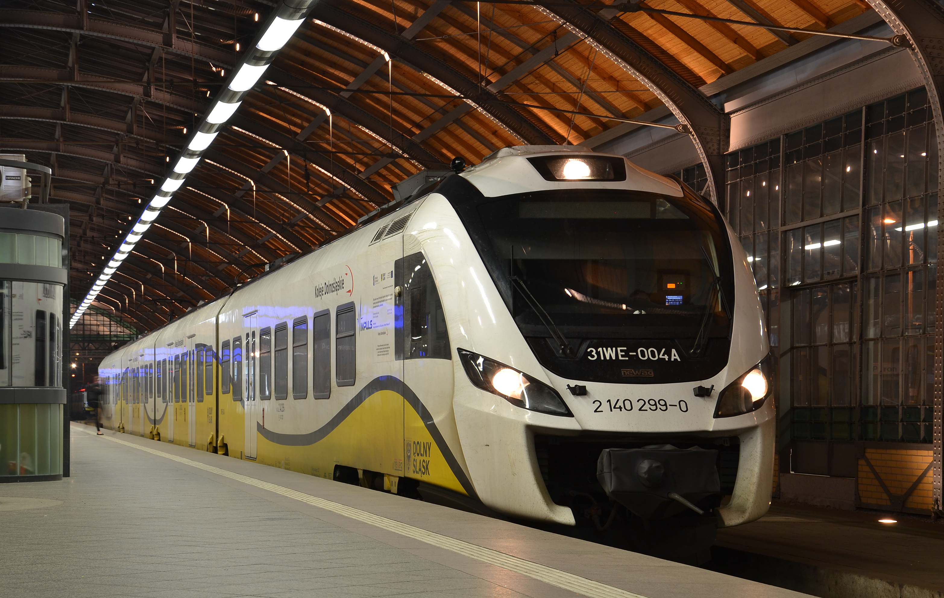 Newag Impuls 31WE-004A in Wrocław (Breslau)